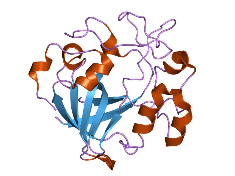 Cartoon representation of the molecular structure of protein registered with 1hd5 code.